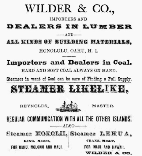 Advertisement for company founded by Samuel Garner Wilder (1831–1888) which provided steamship service and other merchandise trading in Hawaii, from 1880